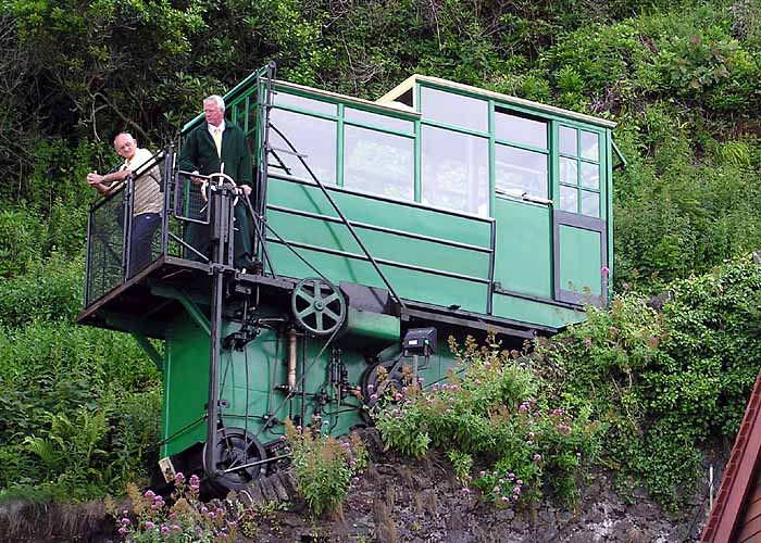 A car of the Lynton and Lynmouth Cliff Railway. Opened in 1890, the railway is a water-operated funicular, 862 feet (263 metres) long, operating on a 1 in 1.75 gradient track. Each of the two cars carries 40 passengers. One car descends while the other ascends, on a counterbalance system. The water is piped from the East Lyn river. Taken by Adrian Pingstone in July 2004 and released to the public domain.